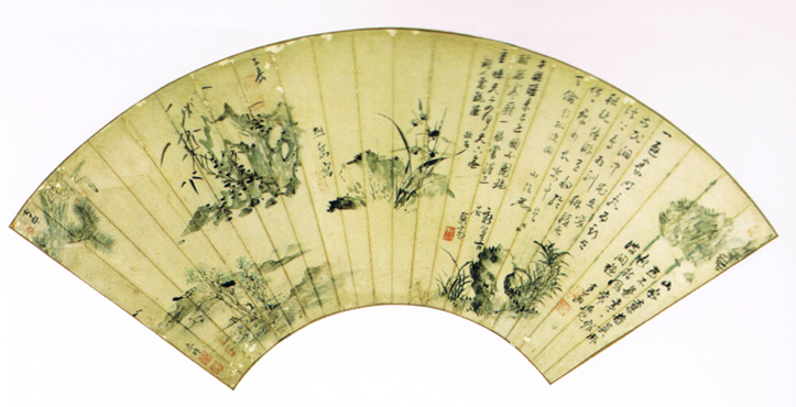 Japanese fan from the Edo Period